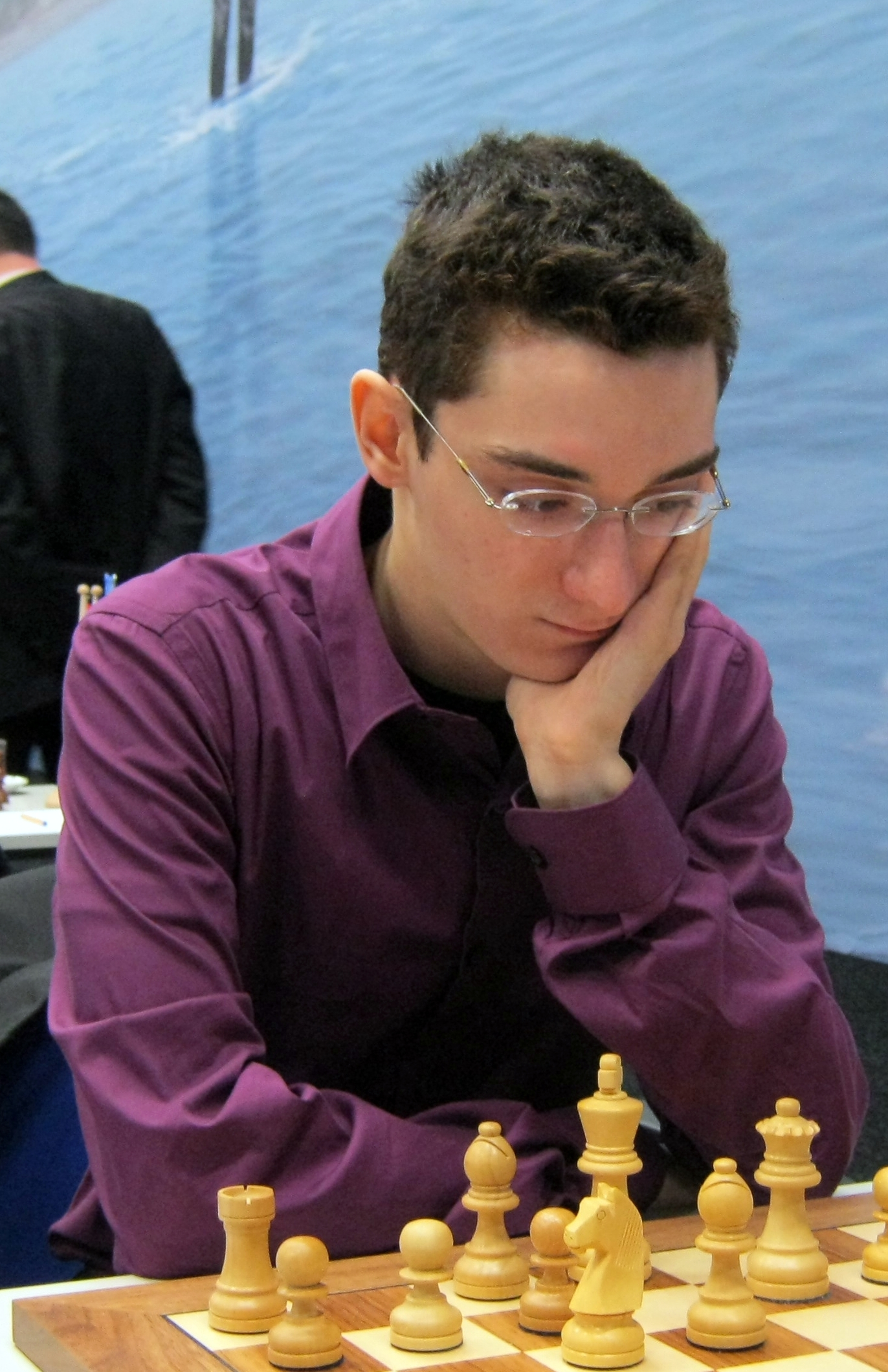 Fabiano Caruana, chess grandmaster from Italy